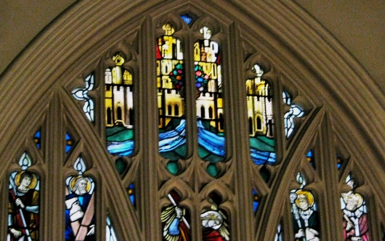 Top part of east window in All Saints' Church. Bristol. We see St George, St Andrew, Michael the Archangel vanquishing the dragon, St Patrick and St David and above them an image of the New Jerusalem with the Tree of Life before it.